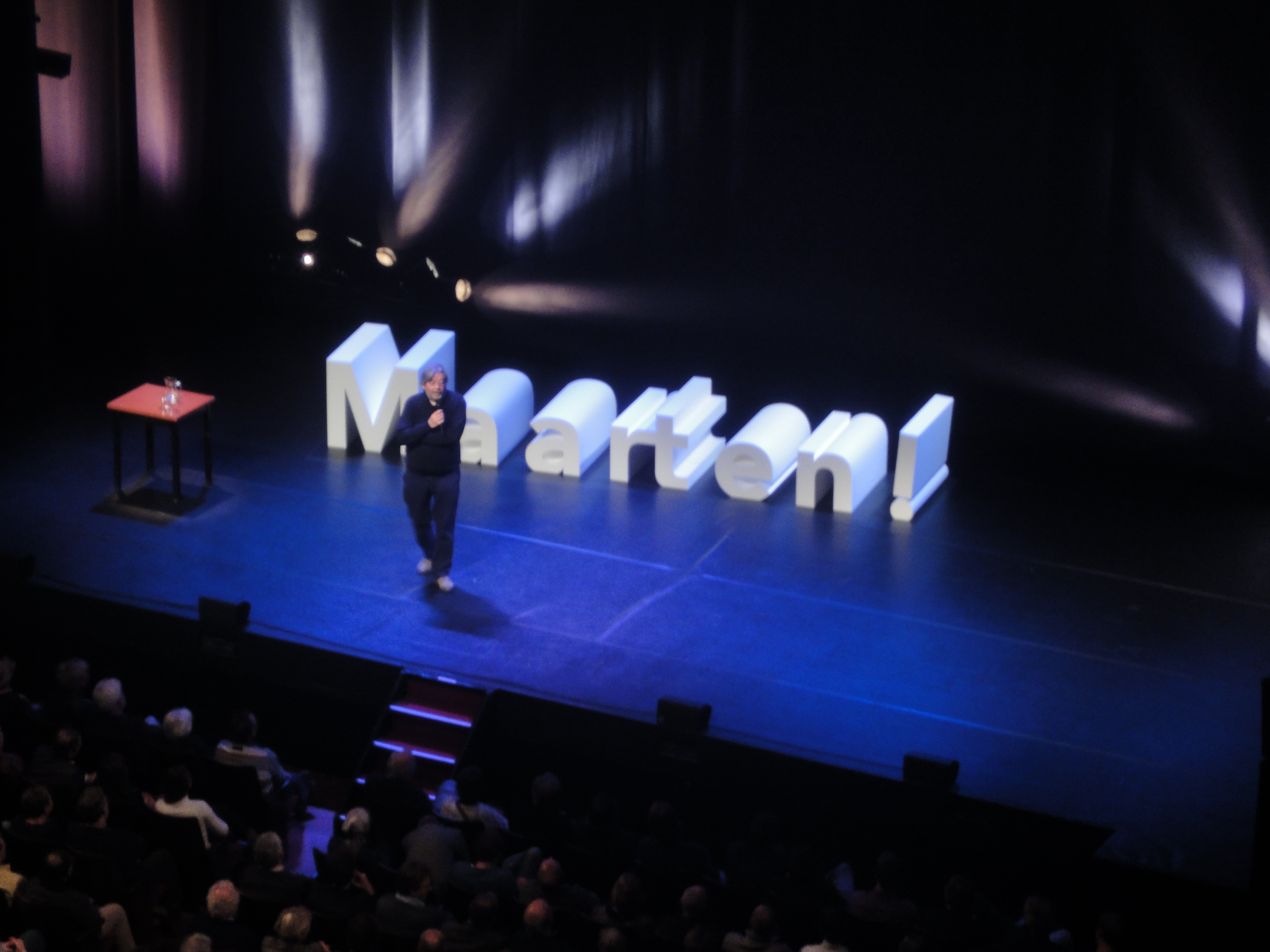 Maarten van Rossem doing his "oudejaarsconferance" in Carré